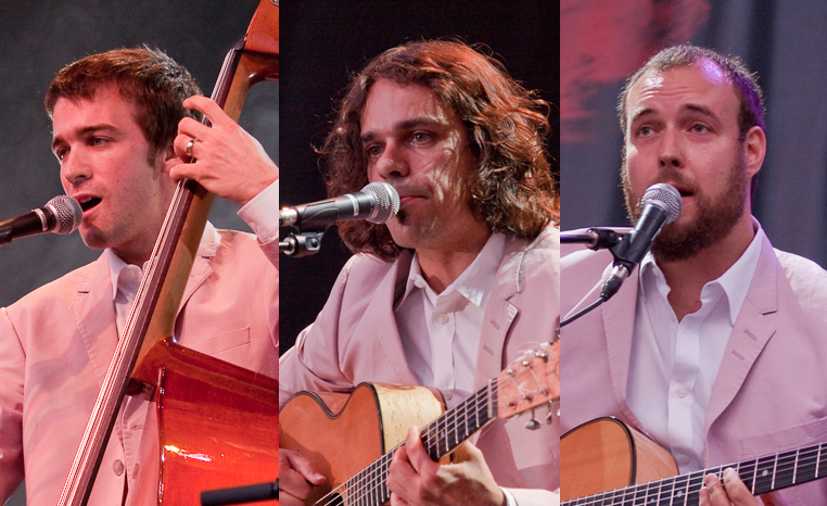 A composite of three images of the members of the French-Canadian jazz band The Lost Fingers performing at the Festival franco-ontarien on June 11, 2009 in Ottawa, Canada. From left to right, Alex Morissette, Christian Roberge, and Byron Mikaloff.